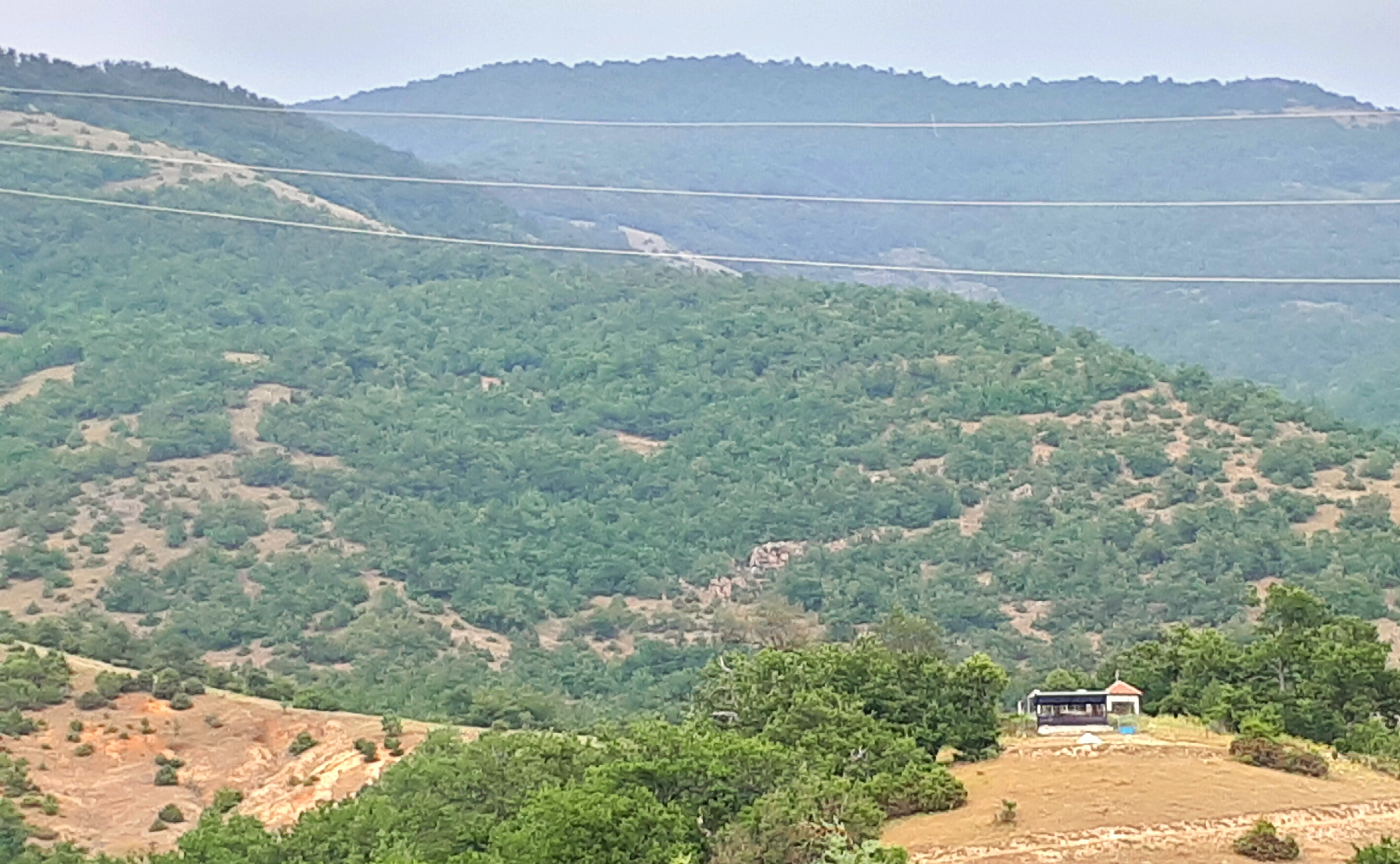 Church in the village Ižište